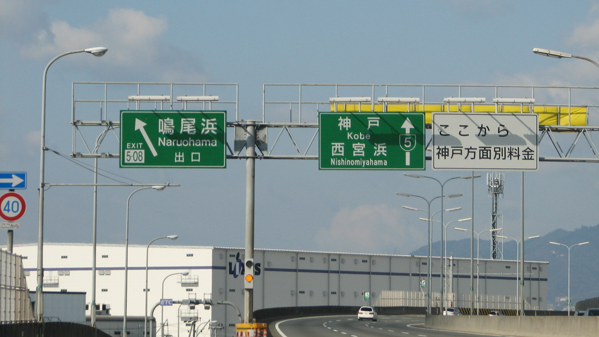 Hanshin Expressway Naruohama IC